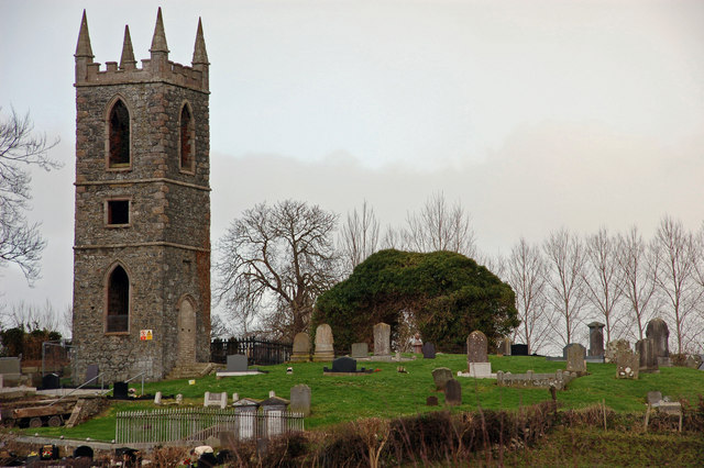 Tullylish old church There is quite a history attached to the old church at Tullylish. Excavations suggest that there was a monastery on the site in the 6th century. The first minister is recorded in 1526. It was destroyed in the wars of 1641 and rebuilt in 1698 before being abandoned in 1861 when replaced by the new church on the other side of the road. It is said that it could hold a congregation of 600. WB Yeats (senior) was rector in 1846.